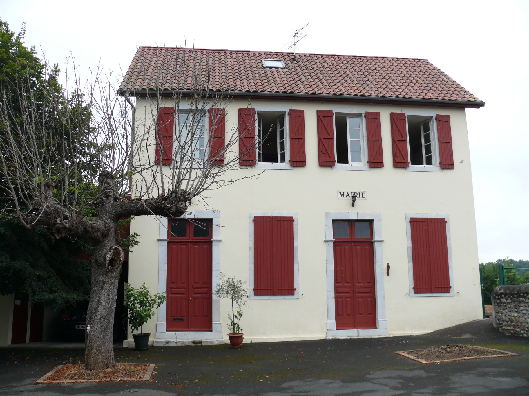 The city hall of Tabaille-Usquain (Pyrénées-Atlantiques, France).